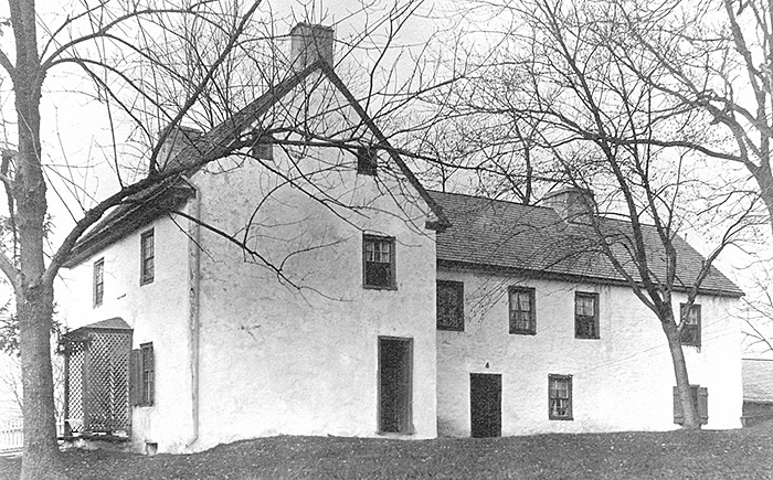 The David Havard House, in Tredyffrin Township, Pennsylvania, circa 1900 date QS:P,+1900-00-00T00:00:00Z/9,P1480,Q5727902. It served as quarters for General Charles Lee and Colonel William Bradford during the Continental Army's encampment at Valley Forge during the American Revolutionary War.